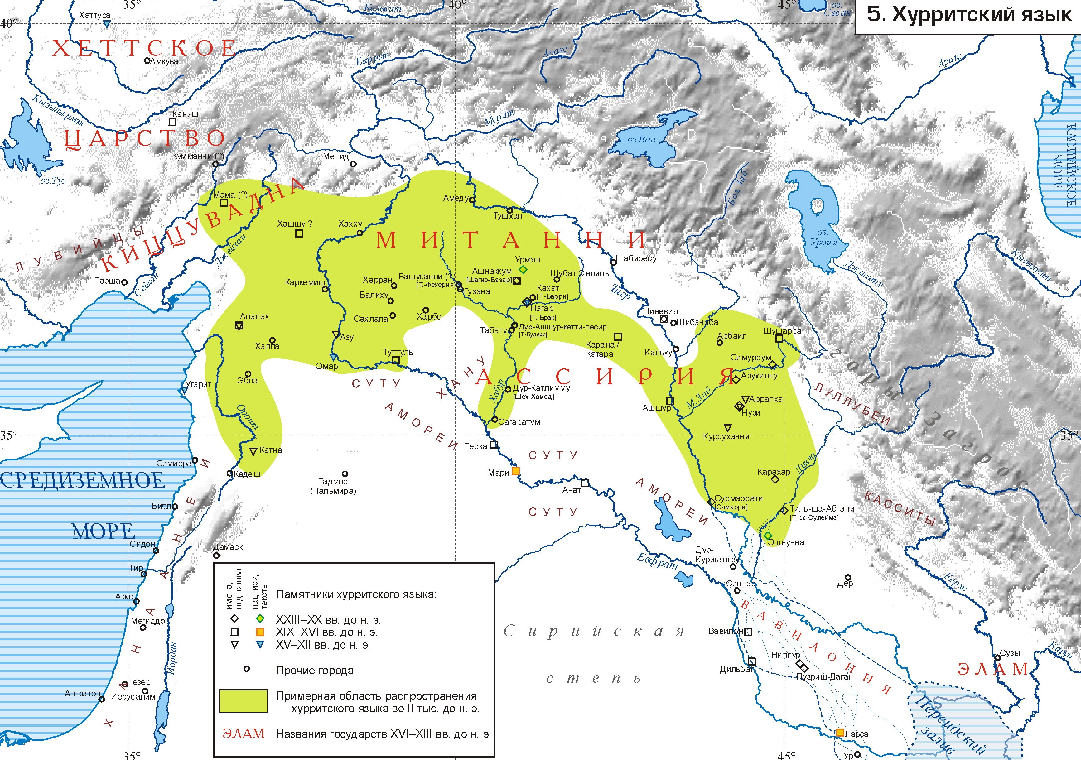 Map of Hurrian language area in 2nd mil BC. In Russian.